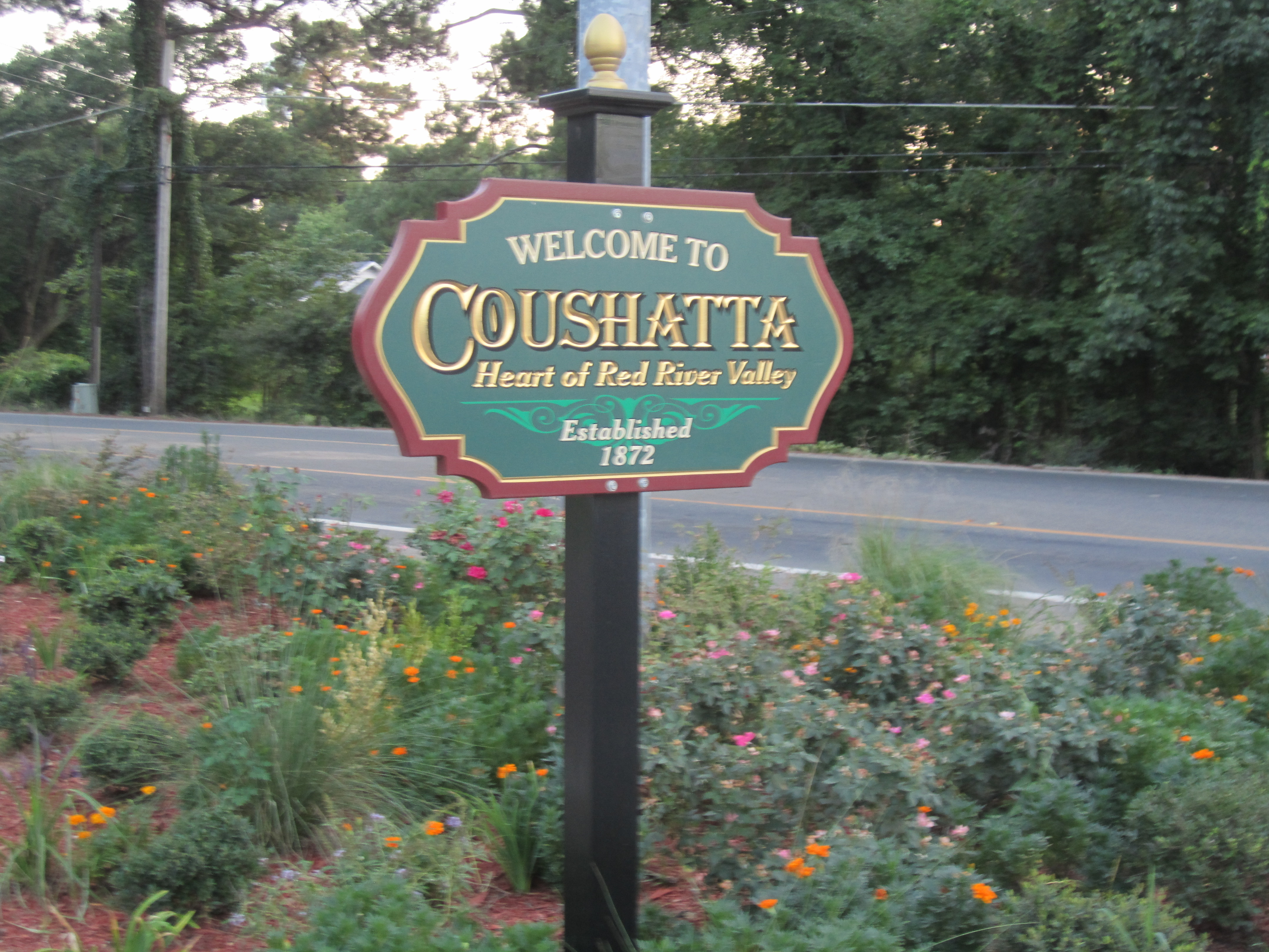 I took photo with Canon camera in Coushatta, LA.